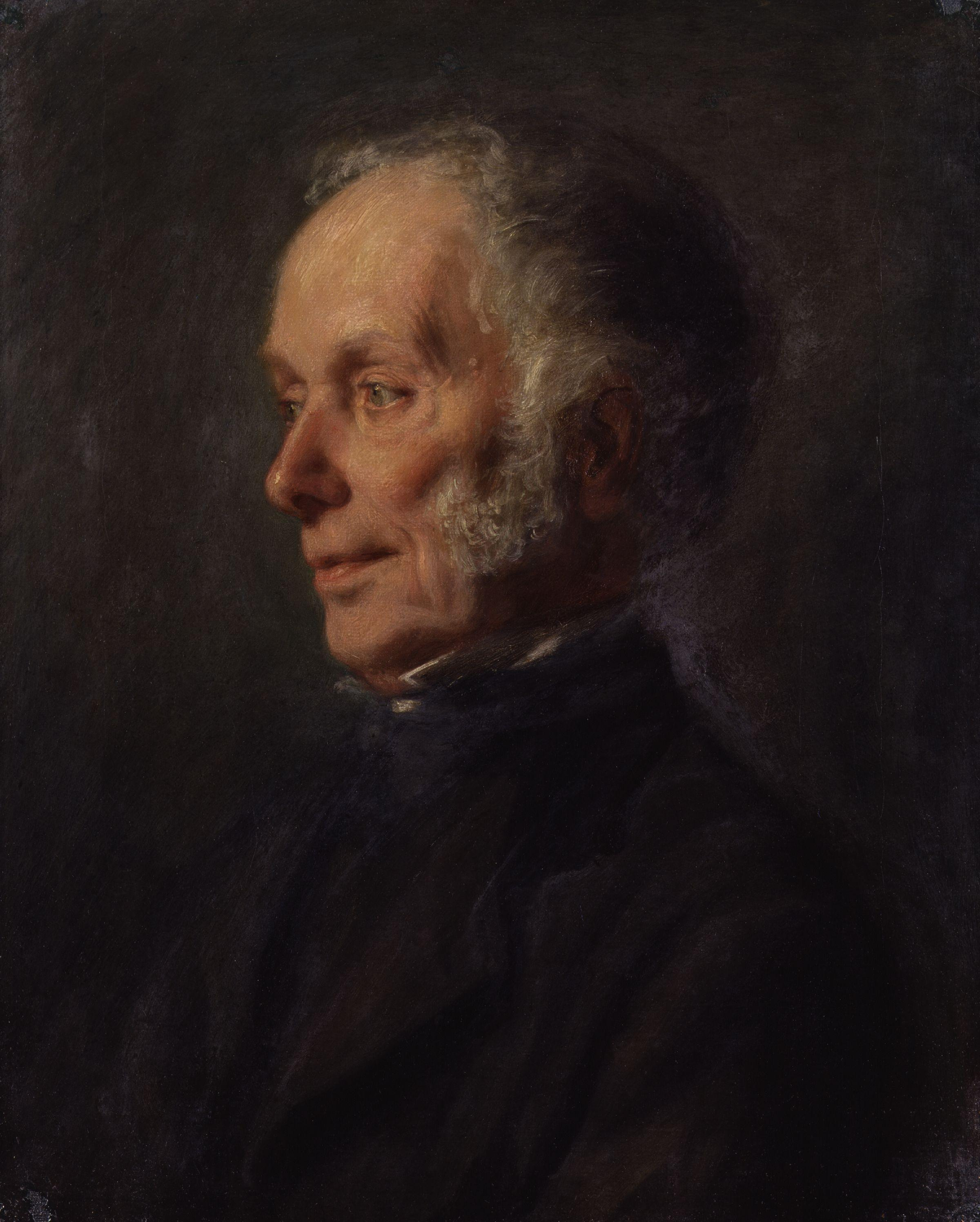 All images in this batch have been confirmed as author died before 1939 according to the official death date listed by the NPG, given to the National Portrait Gallery, London in 1907.